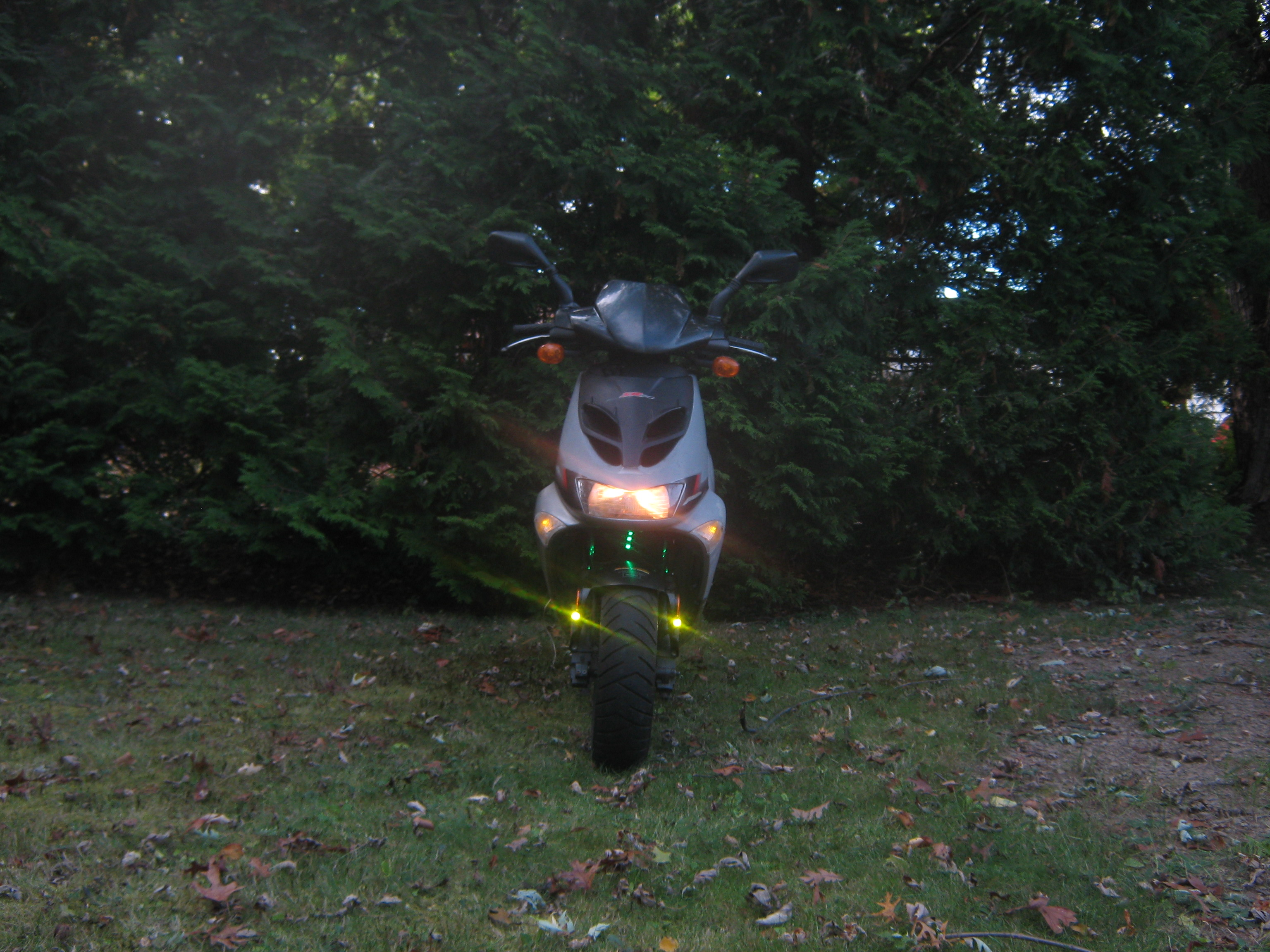 2003 Aprilia SR 50 Ditech with Morini Engine. Selective Yellow headlamp and fog lamps, amber parking lamps/DRLs, and green underglow lights.